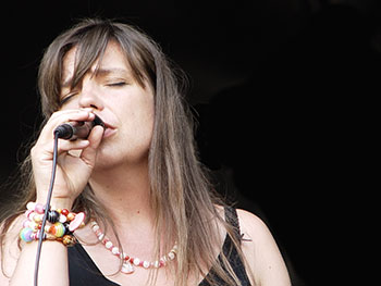 Josefine Cronholm